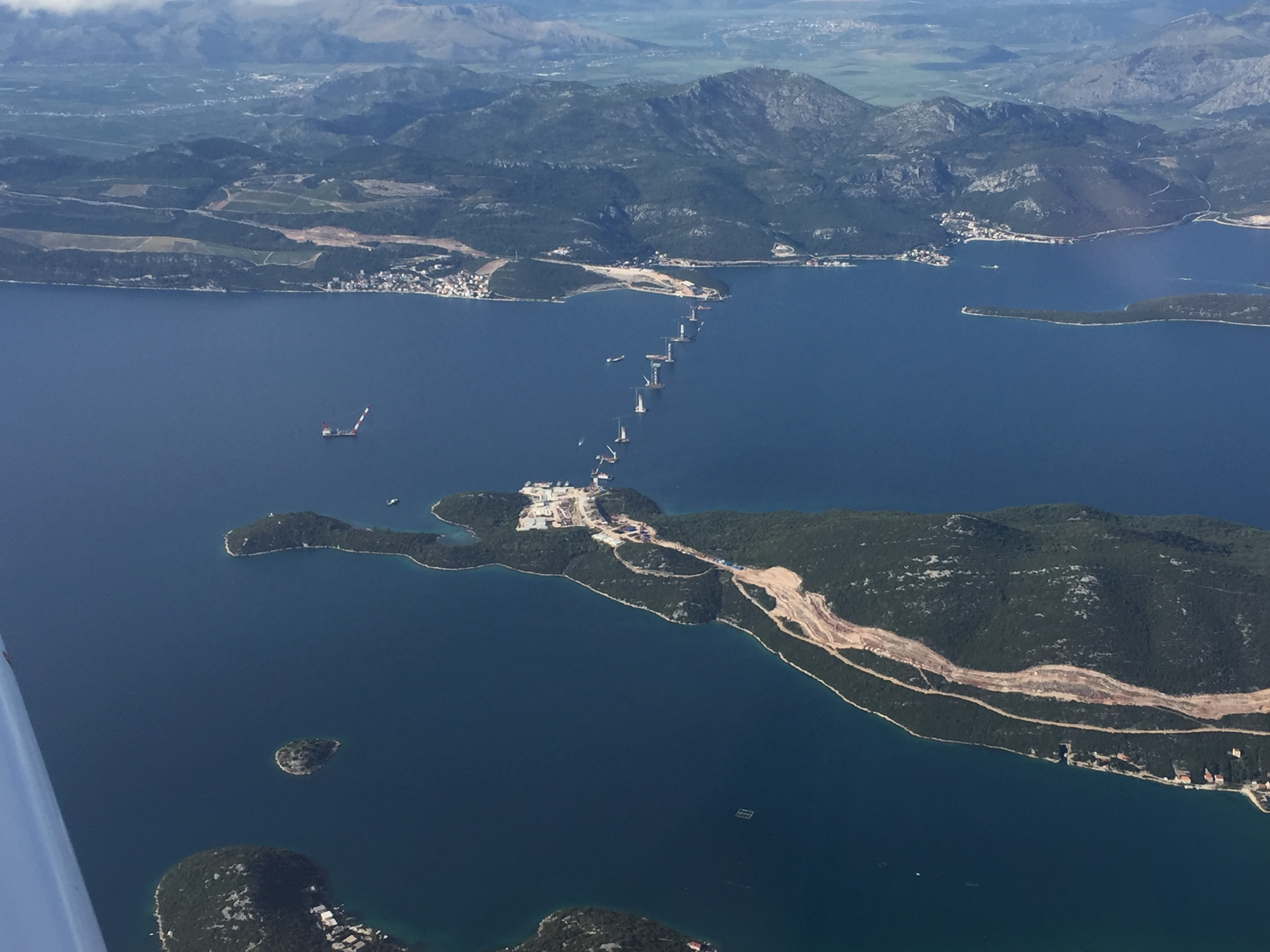 Pelješac Bridge construction site on June 18th, 2020.